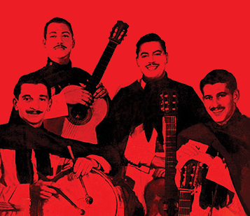 Los Chalchaleros. Argentinean folk group (Ricardo "Dicky" Dávalos, Ernesto Cabeza, Aldo Saravia y Juan Carlos Saravia).